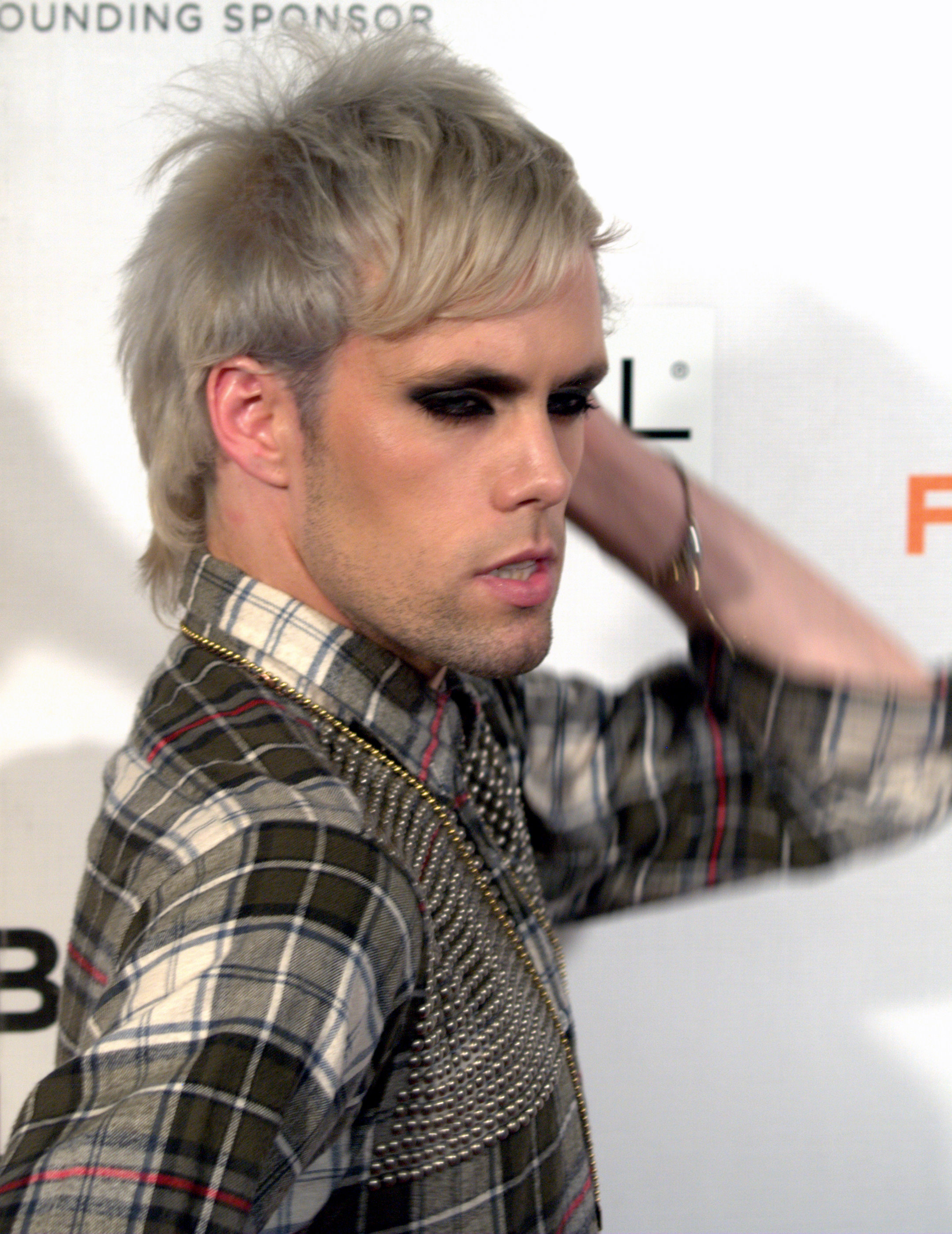 Justin Tranter at the 2009 Tribeca Film Festival for the premiere of Serious Moonlight, in which his band Semi Precious Weapons had two songs.